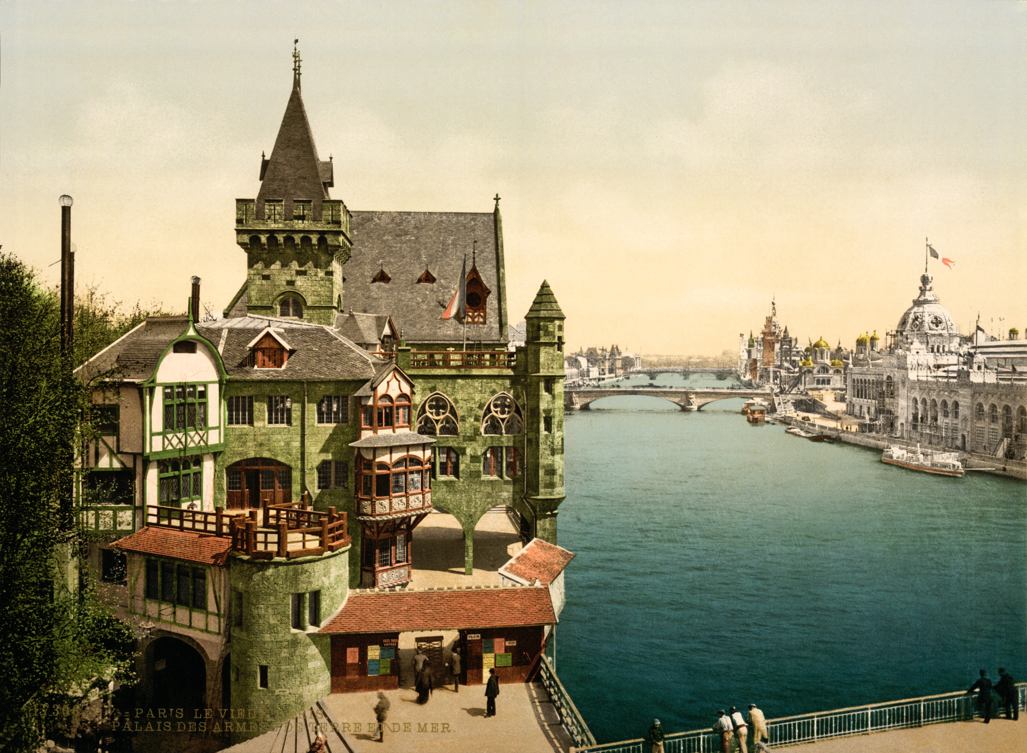 original description: Ancient Paris and perspective of the bridges, showing Army and Navy buildings, Expositions Universal, 1900, Paris, France.